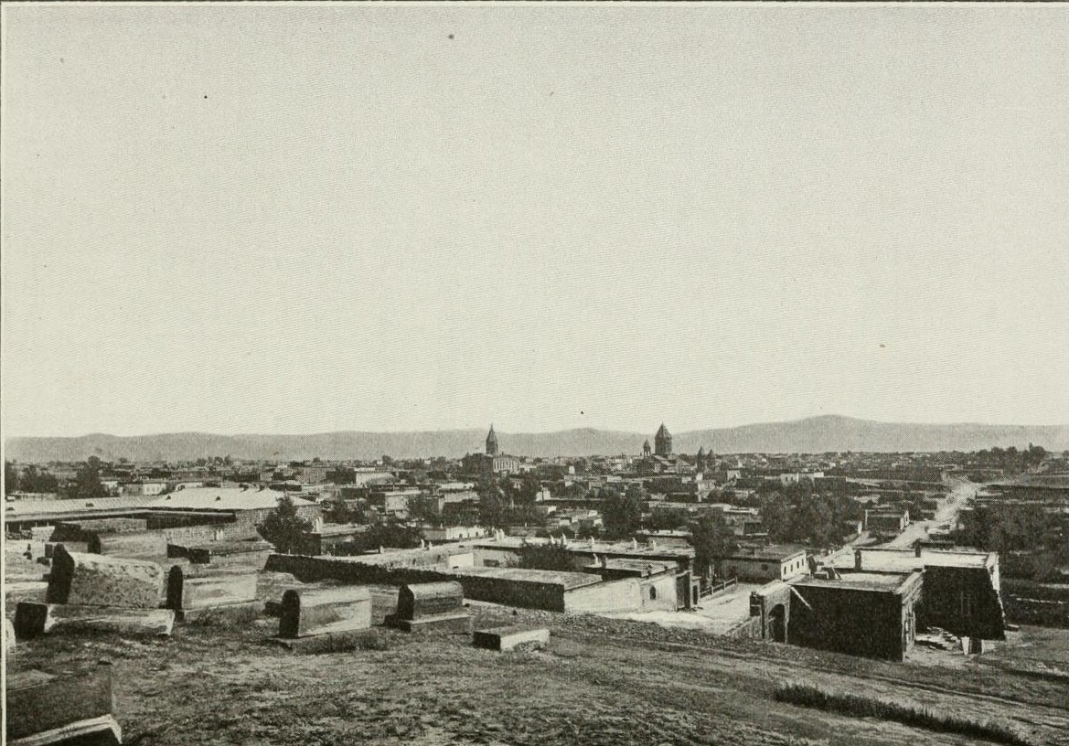 from H. F. B. Lynch Armenia, travels and studies, 1901